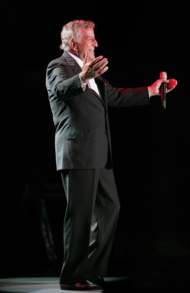 Dwight McCann [1] CC-by-sa-2.5, Dwight McCann/Chumash Casino Resort/ Tony Bennett at the Chumash Casino Resort in Santa Ynez, California.